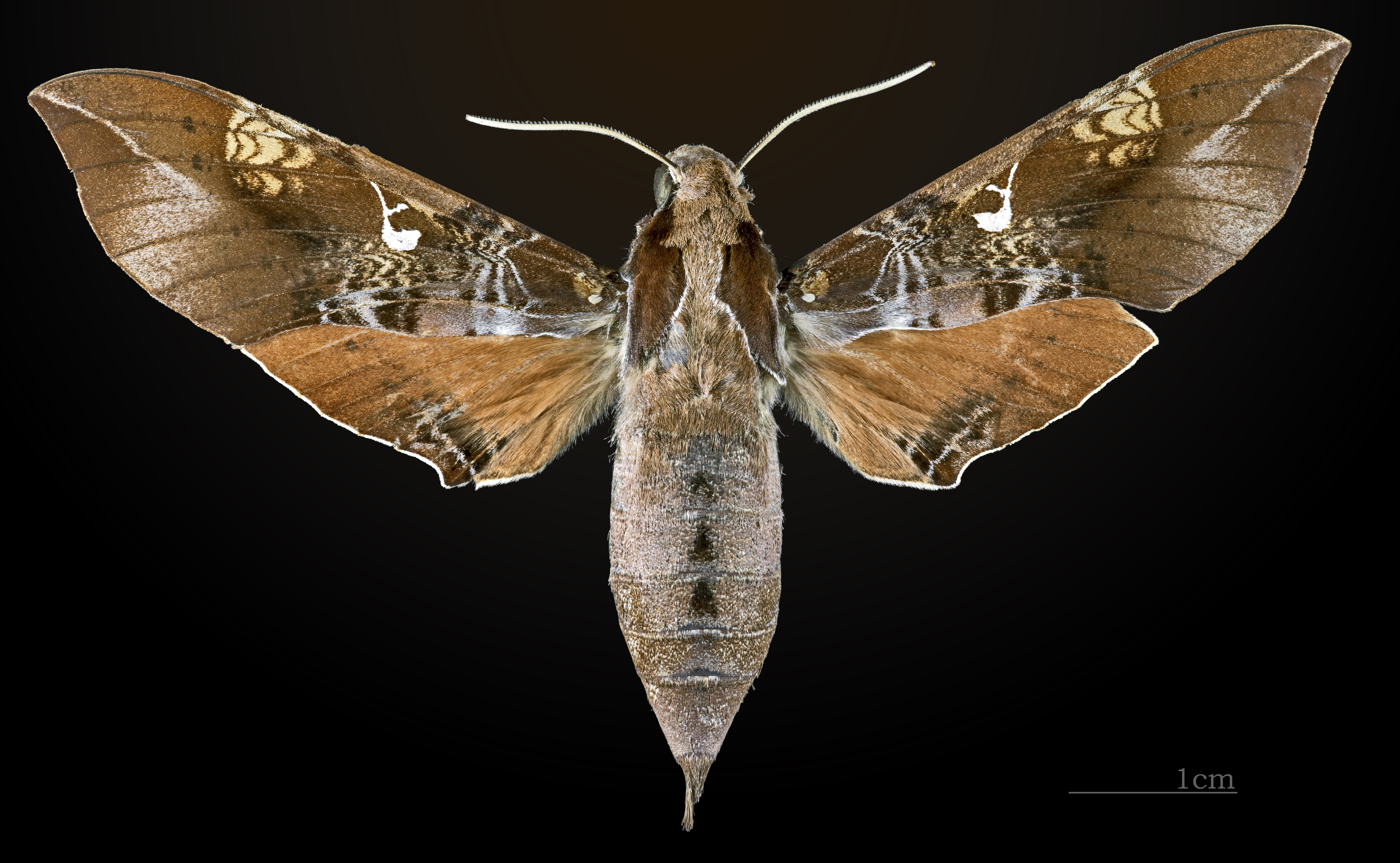 Callionima innus - Dorsal side Collection of the Mathematician Laurent Schwartz